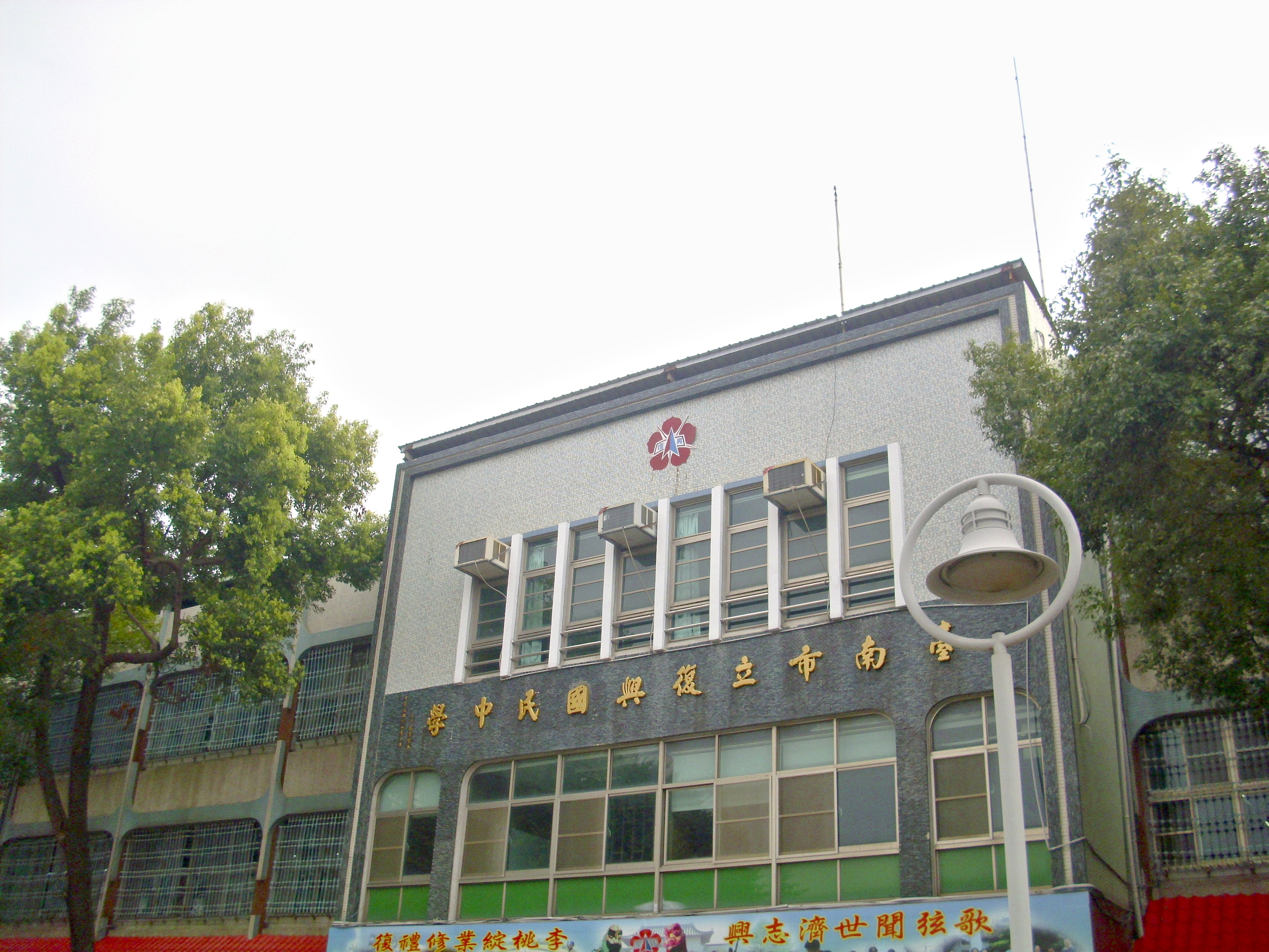 Ching-yeh Building in Tainan Municipal junior High School中文（台灣）: 臺南市立復興國民中學敬業樓北側於2012/2/3